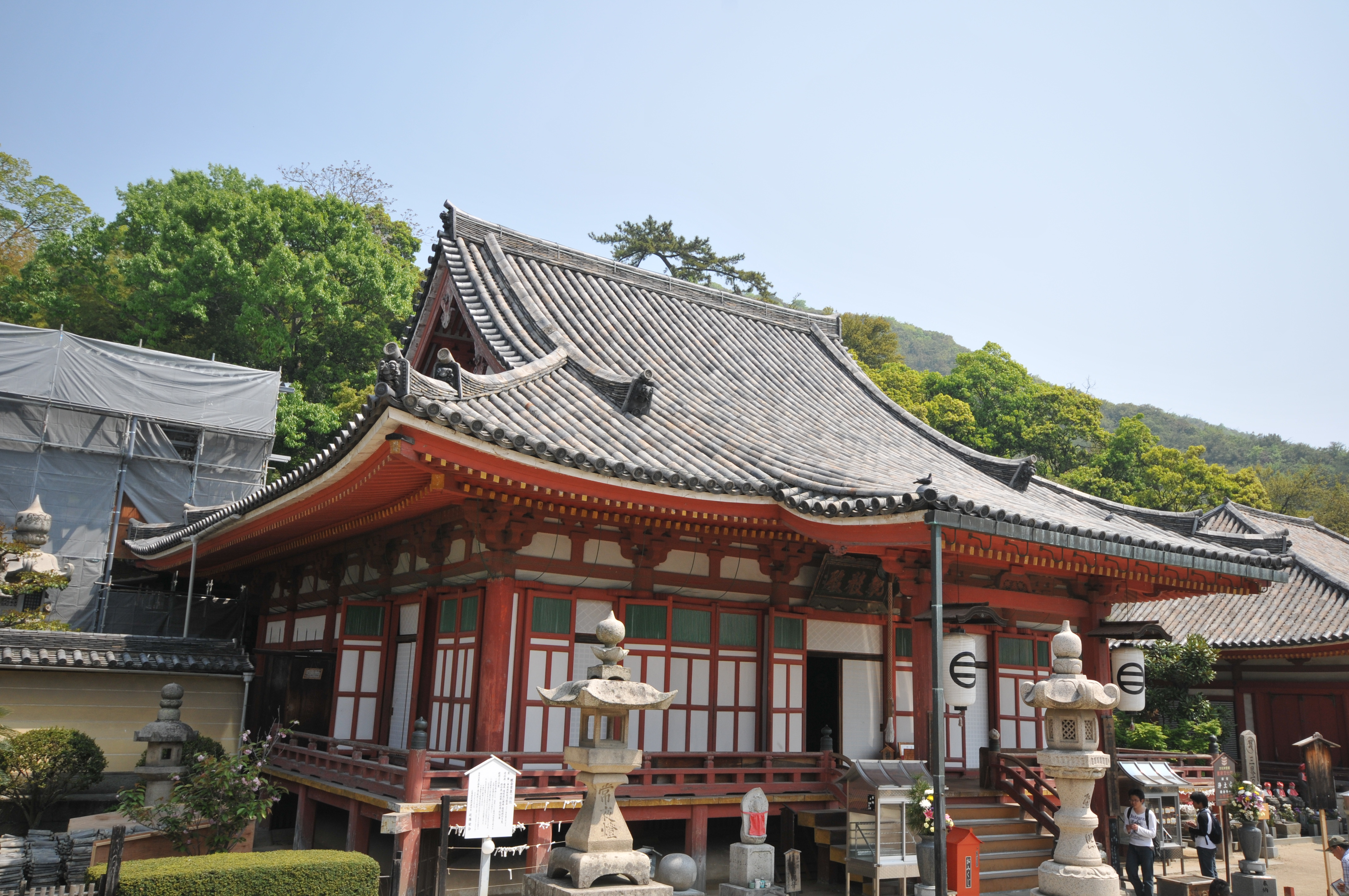 Main temple(National treasure of Japan)